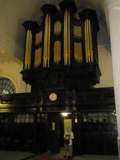 Organ within St Mary-at-Hill